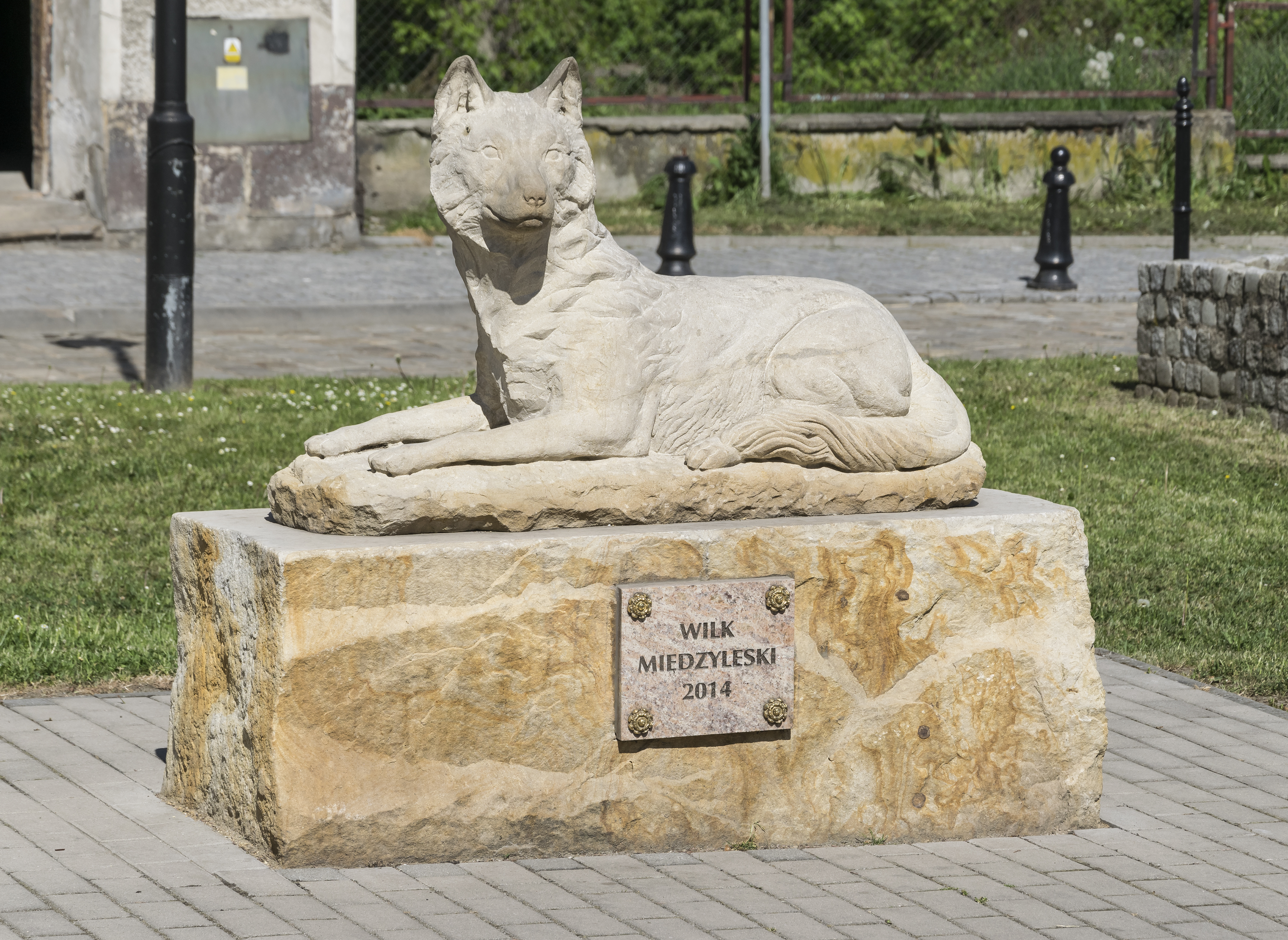 Statue of wolve in Międzylesie